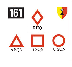 Vehicle markings of the North Irish Horse regiment in 1944 during the Italian campaign.